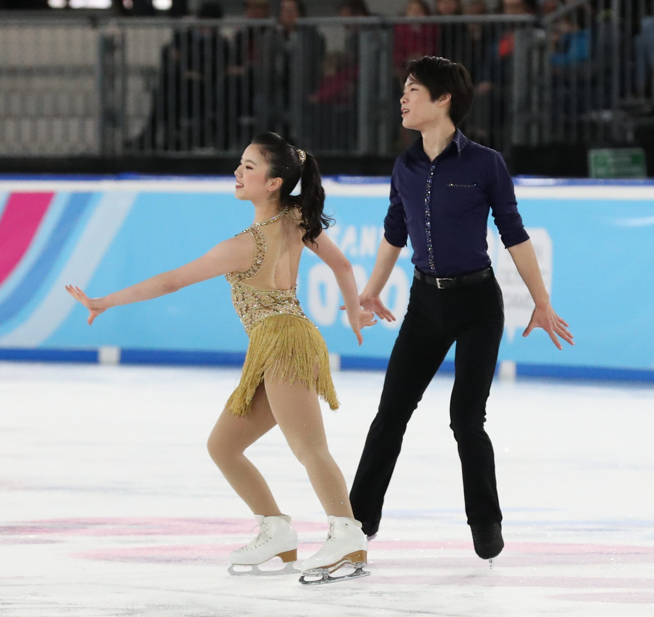 Ice Dance Rhythm Dance at the 2020 Winter Youth Olympics in Lausanne